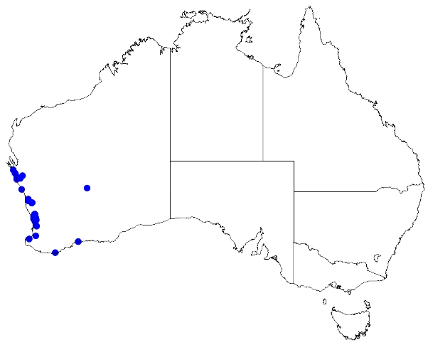 Boronia purdieana downloaded from Australasian Virtual Herbarium 10 April 2019 using This download included all the environmental overlay fields and ALA's data checking fields including "cultivated / escapee", "outside expert range for species", "latitude is negated", "coordinates are transposed", "taxon misidentified", "habitat incorrect for species", and "suspected outlier" (711 fields). Deleting occurrences for which any of the above were true, 46 specimens with coordinates were deleted.